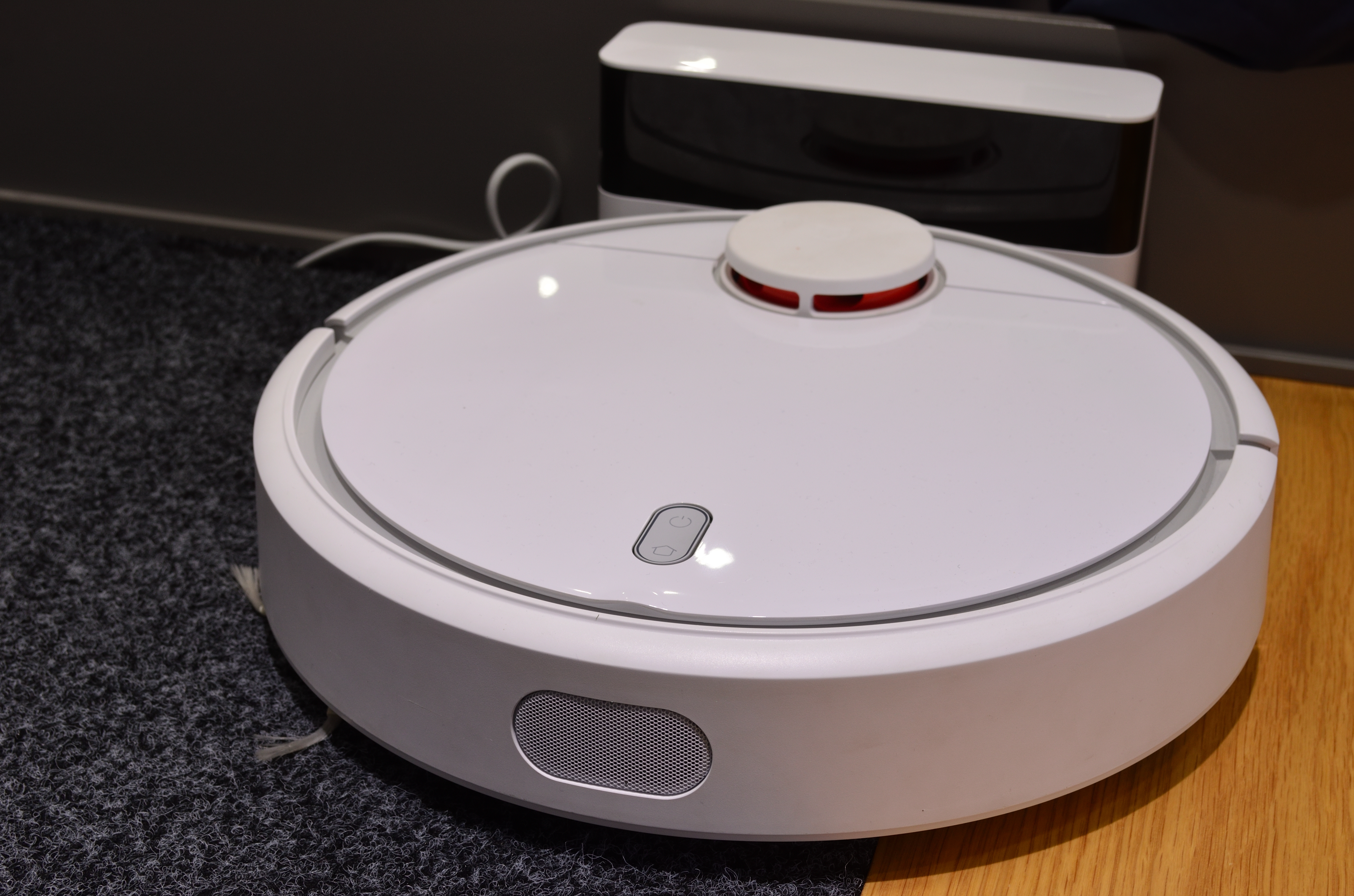 Xiaomi Mi Robot Vacuum Cleaner Robot